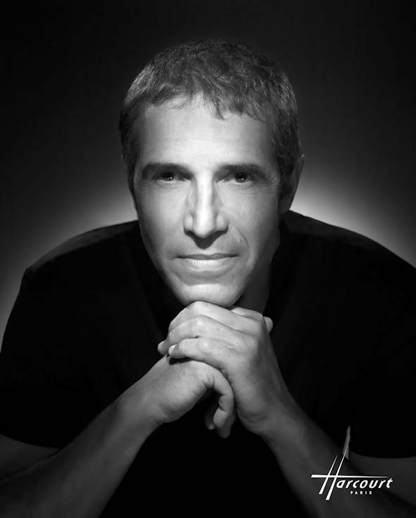 Julien Clerc photographed by Studio Harcourt Paris